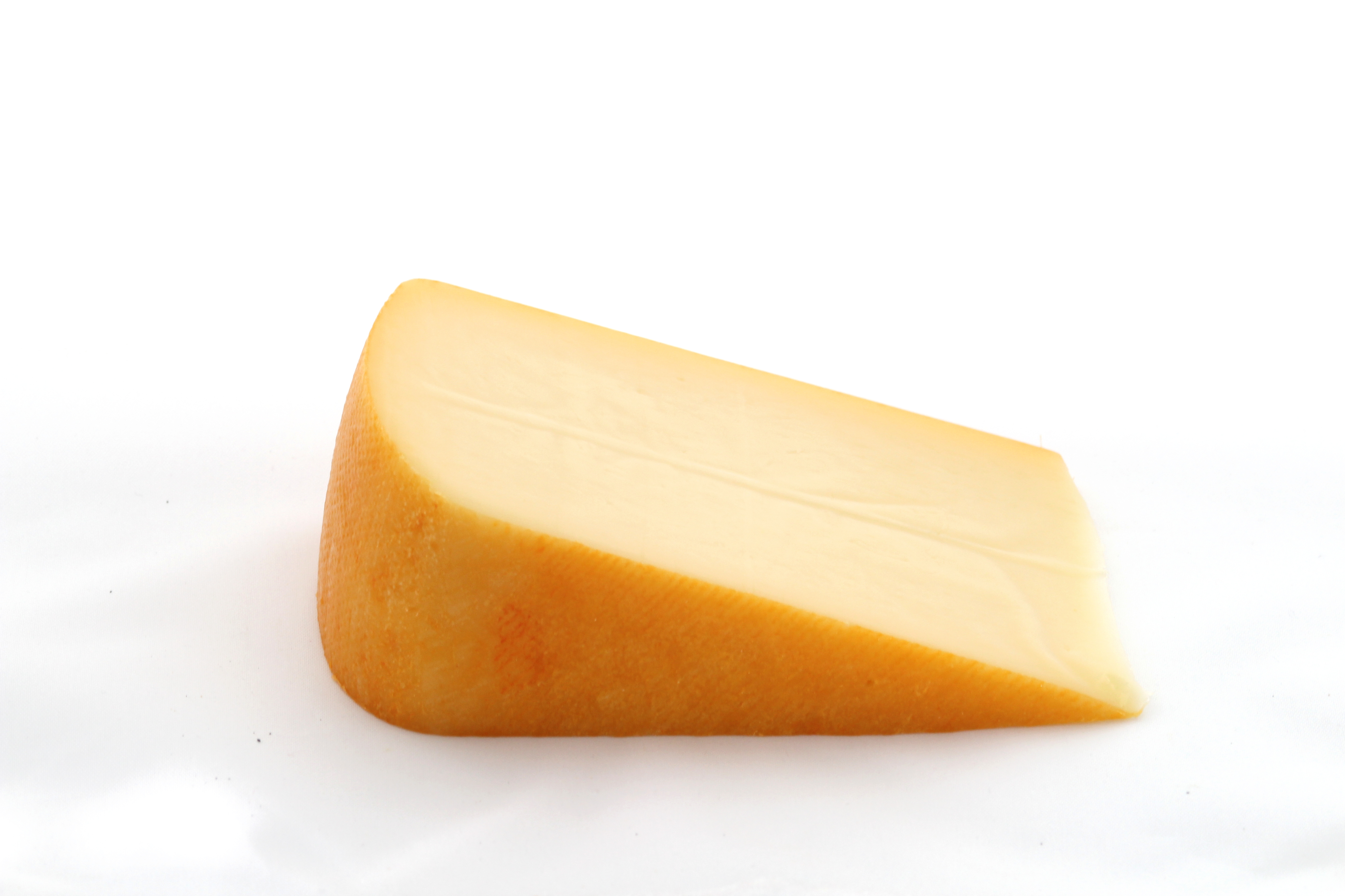 Tilsiter doux (vert) - Swiss semi-hard cheese, from pasteurized cow's milk